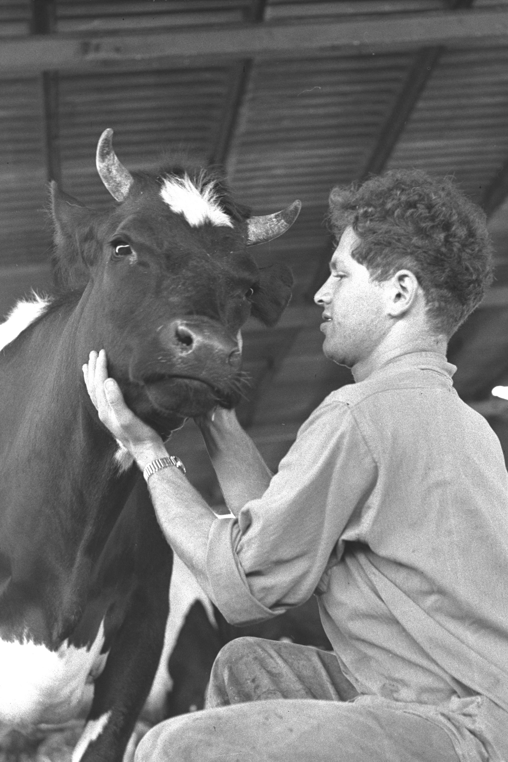 KIBBUTZ NAHAL OZ. URI MARINOV, HERDSMEN OF KIBBUTZ NAHAL OZ, TAKING CARE OF ONE OF THE COWS.